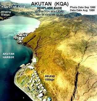 Annotated aerial photograph of Akutan Seaplane Base (KQA) in Akutan, Alaska, United States.